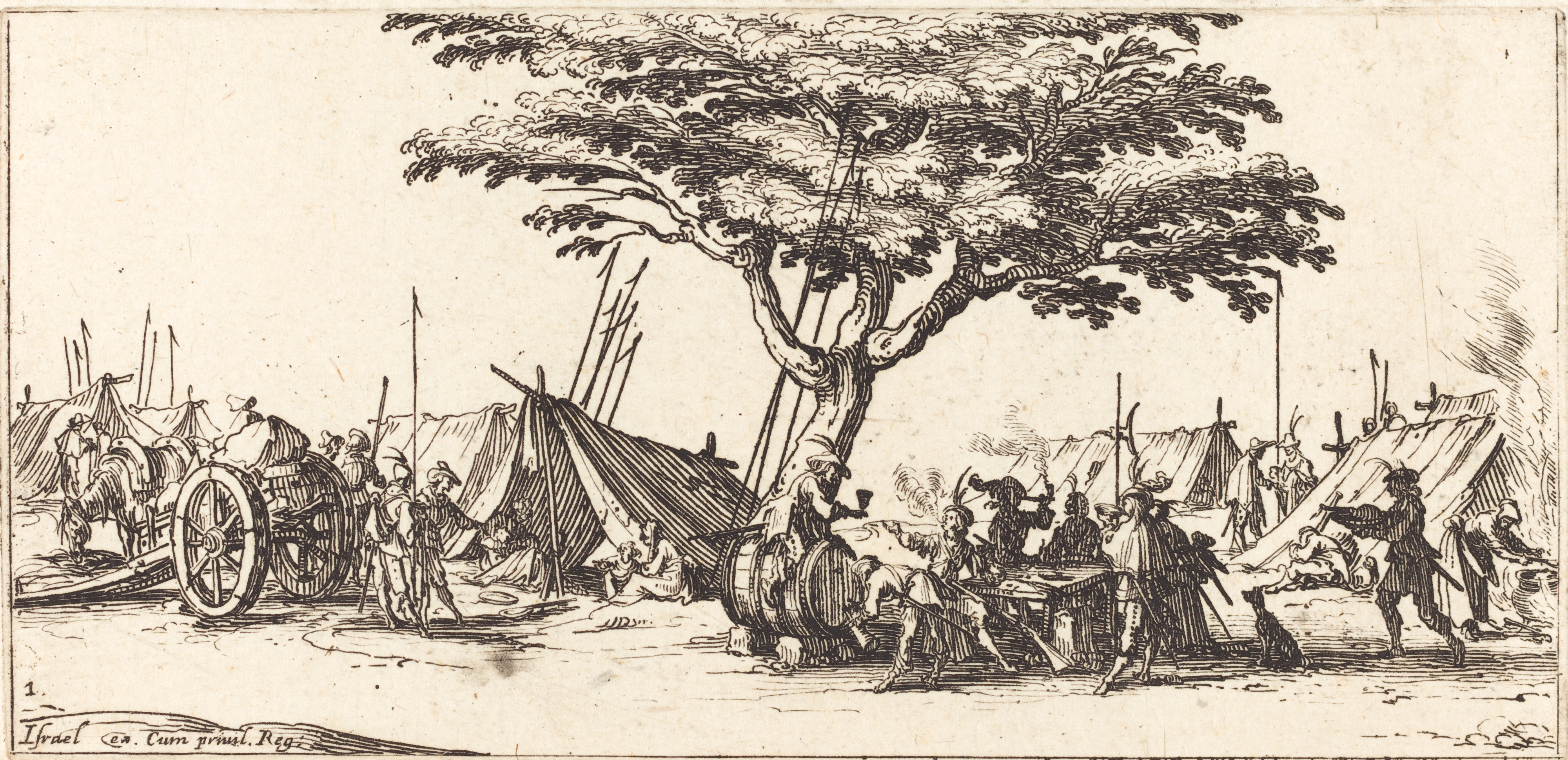 Jacques Callot (French, 1592 - 1635 ), The Camp, c. 1633, etching, R.L. Baumfeld Collection 1969.15.895